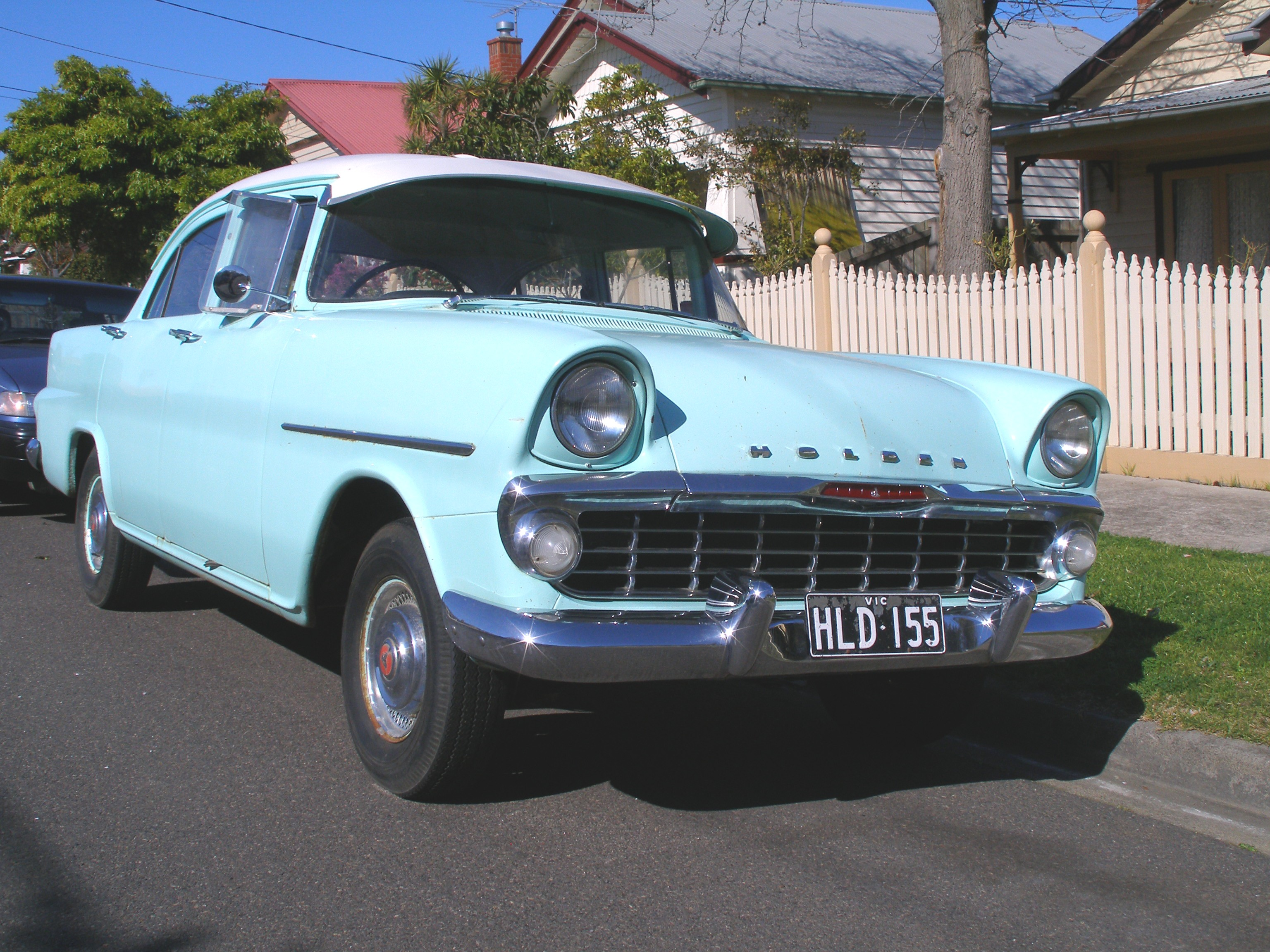 1962–1963 Holden EK Standard sedan, photographed in Victoria, Australia.